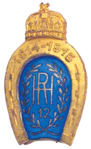 Cs. és Kir. 12. huszárezred zománcos jelvénye